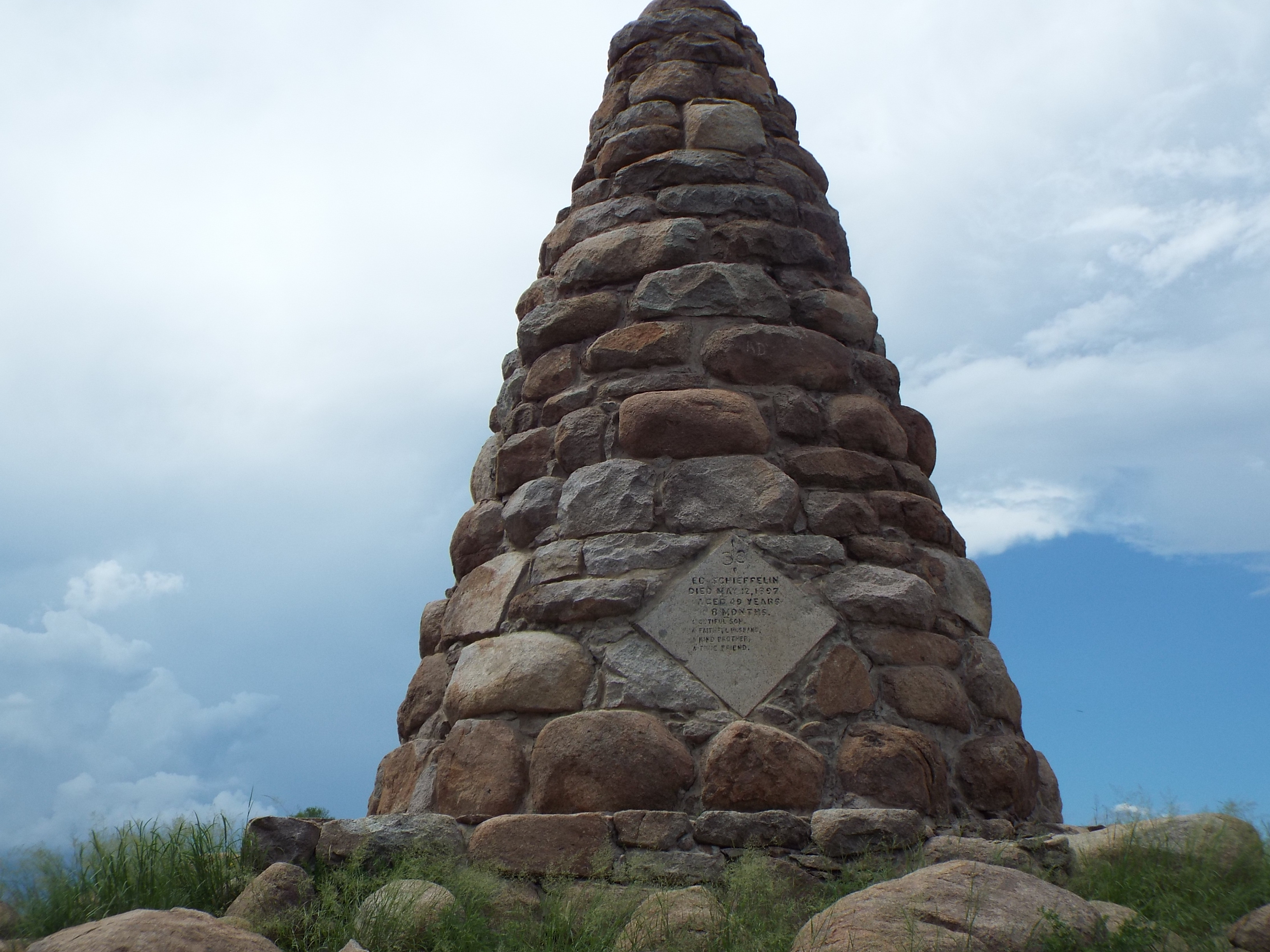 The Tomb of Ed Schieffelin'- Founder of the town of Tombstone, AZ.